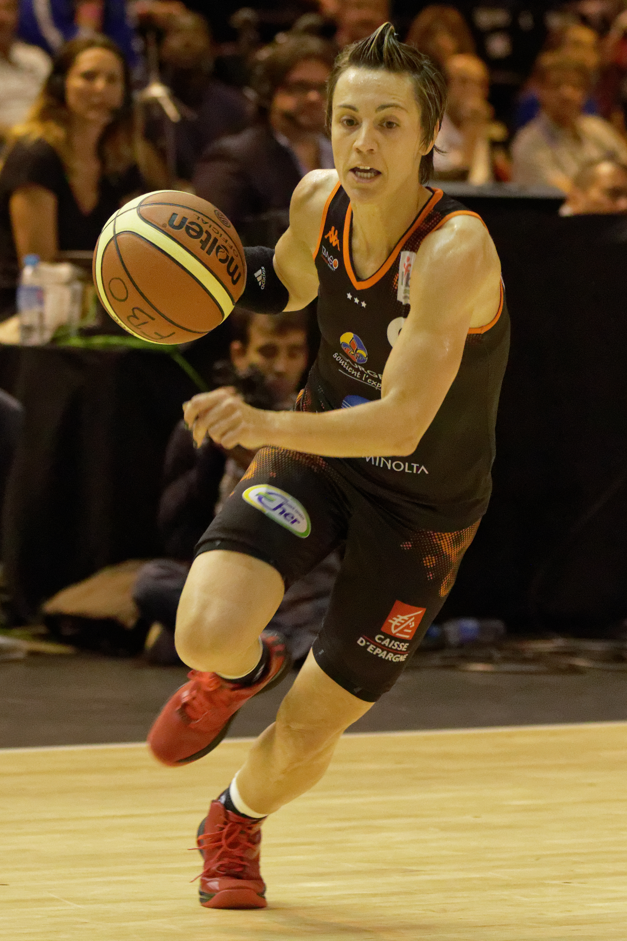 Final of the French Basketball Cup, Lattes-Montpellier vs Bourges, 2nd May 2015.